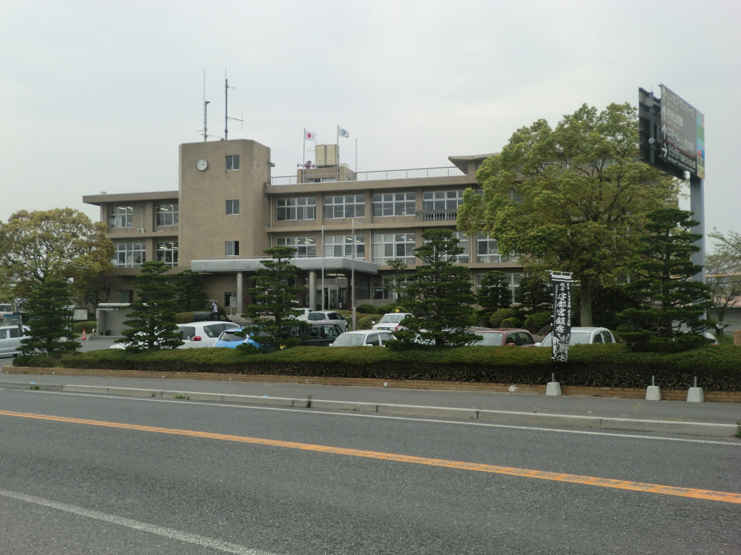 Chikujo town hall at Shiida area in Chikujo, Fukuoka, Japan.